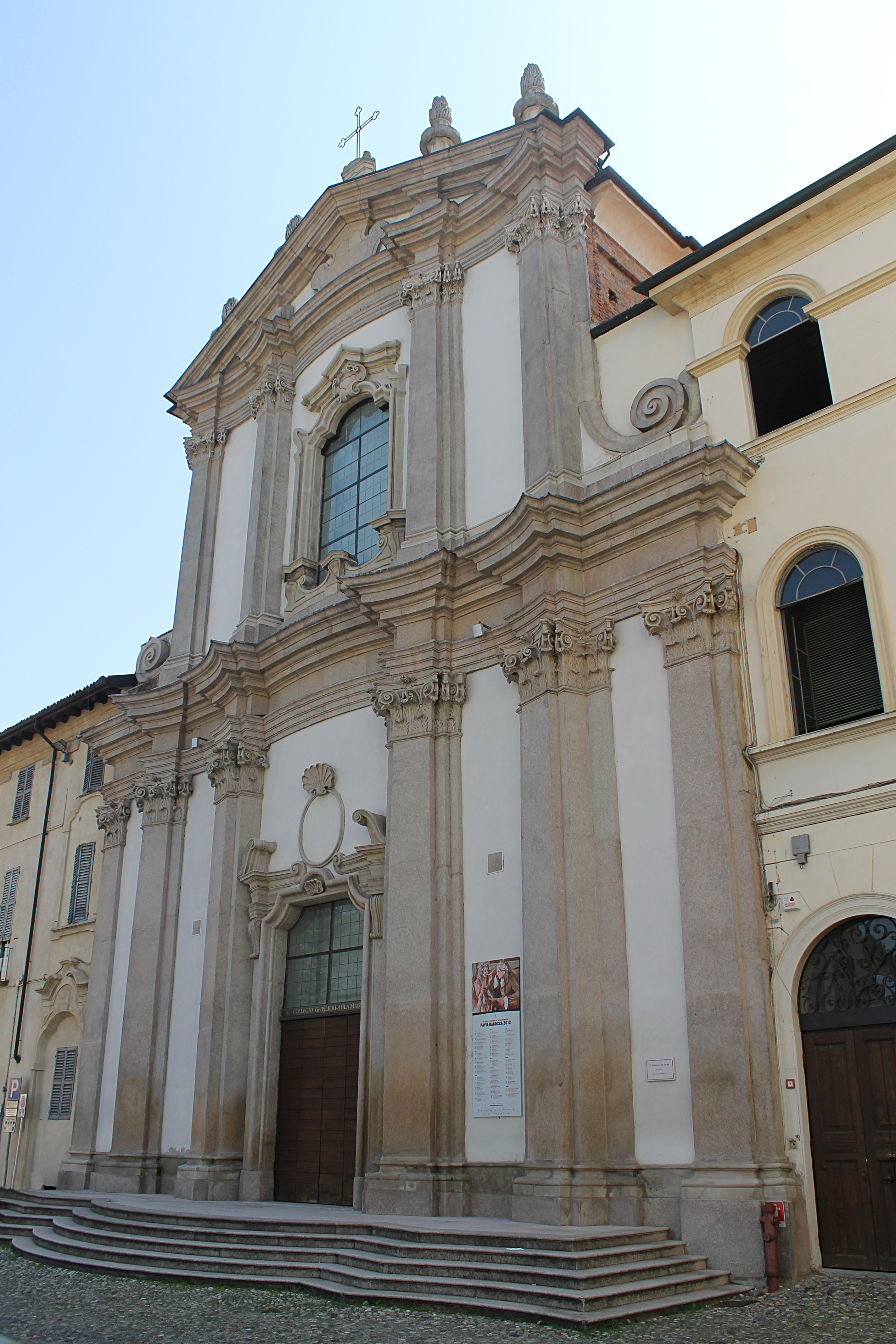 This is a photo of a monument which is part of cultural heritage of Italy.